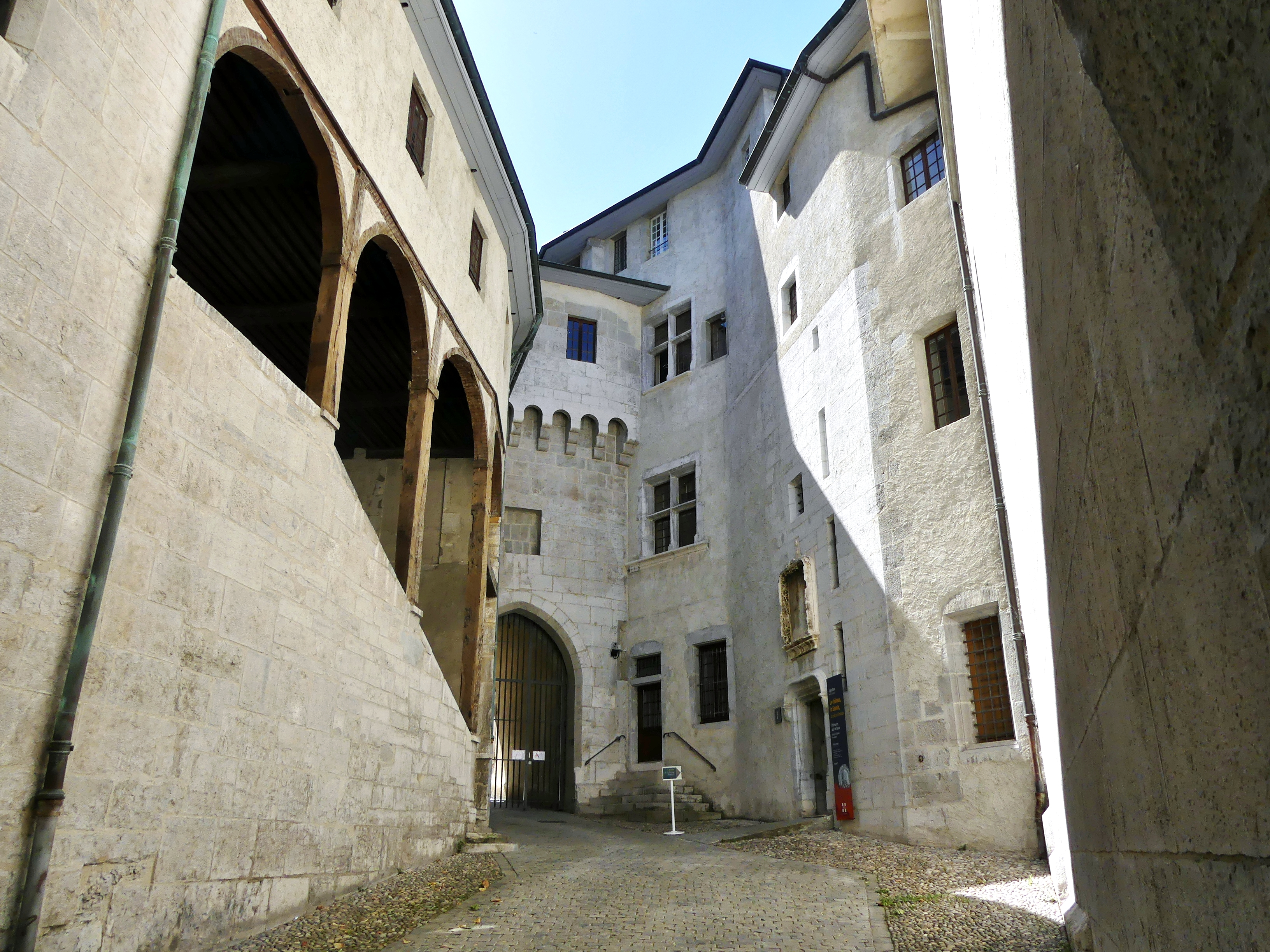 Sight of the Porterie passage and entrance into the city of Chambéry medieval castle, in Savoie, France.